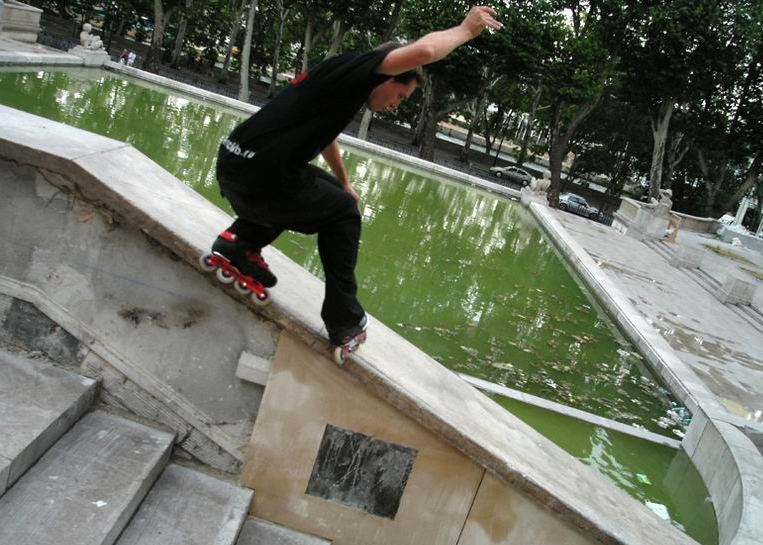 shuffle, slide ... palais de Tokyo (Paris)